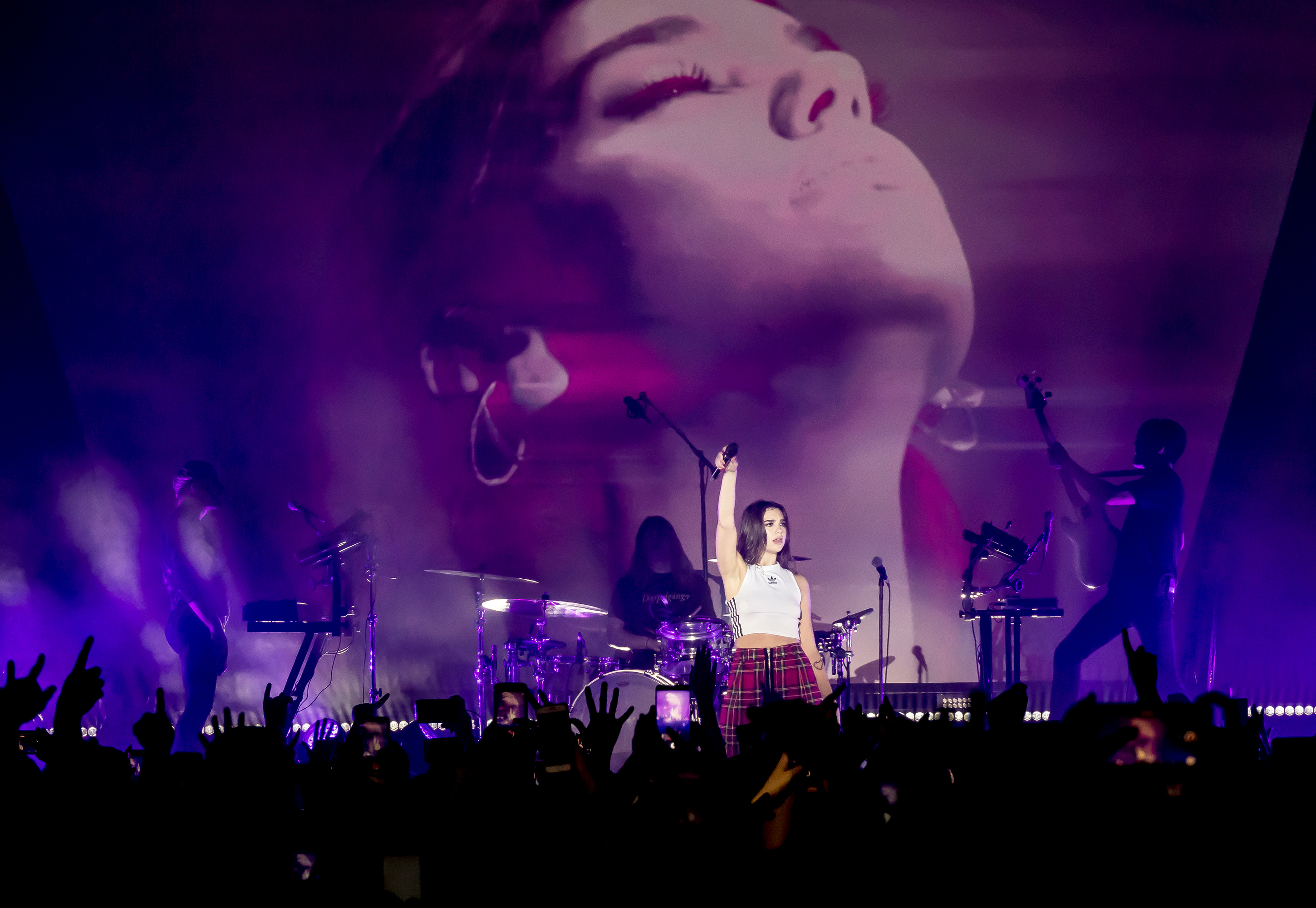 Dua Lipa performing live at The Palladium in Hollywood, Los Angeles, California, on Thursday, February 8, 2018. The first of two sold out nights at this venue on Dua's "Self-Titled" Tour. Shot for Live Nation's Ones To Watch.